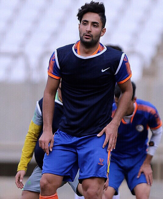 Milad jalali iranian football player